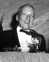 Guests at White House Correspondents' Association Dinner